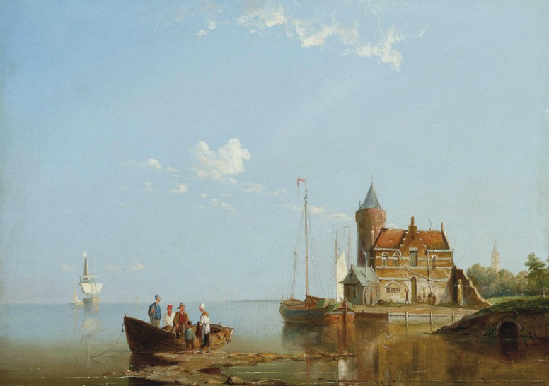 Fisherfolk at the water's edge on a still day; signed and dated 'W R Dommersen 1884' (lower right).